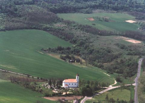 Vigántpetend, Hungary, aerialphotgraphy